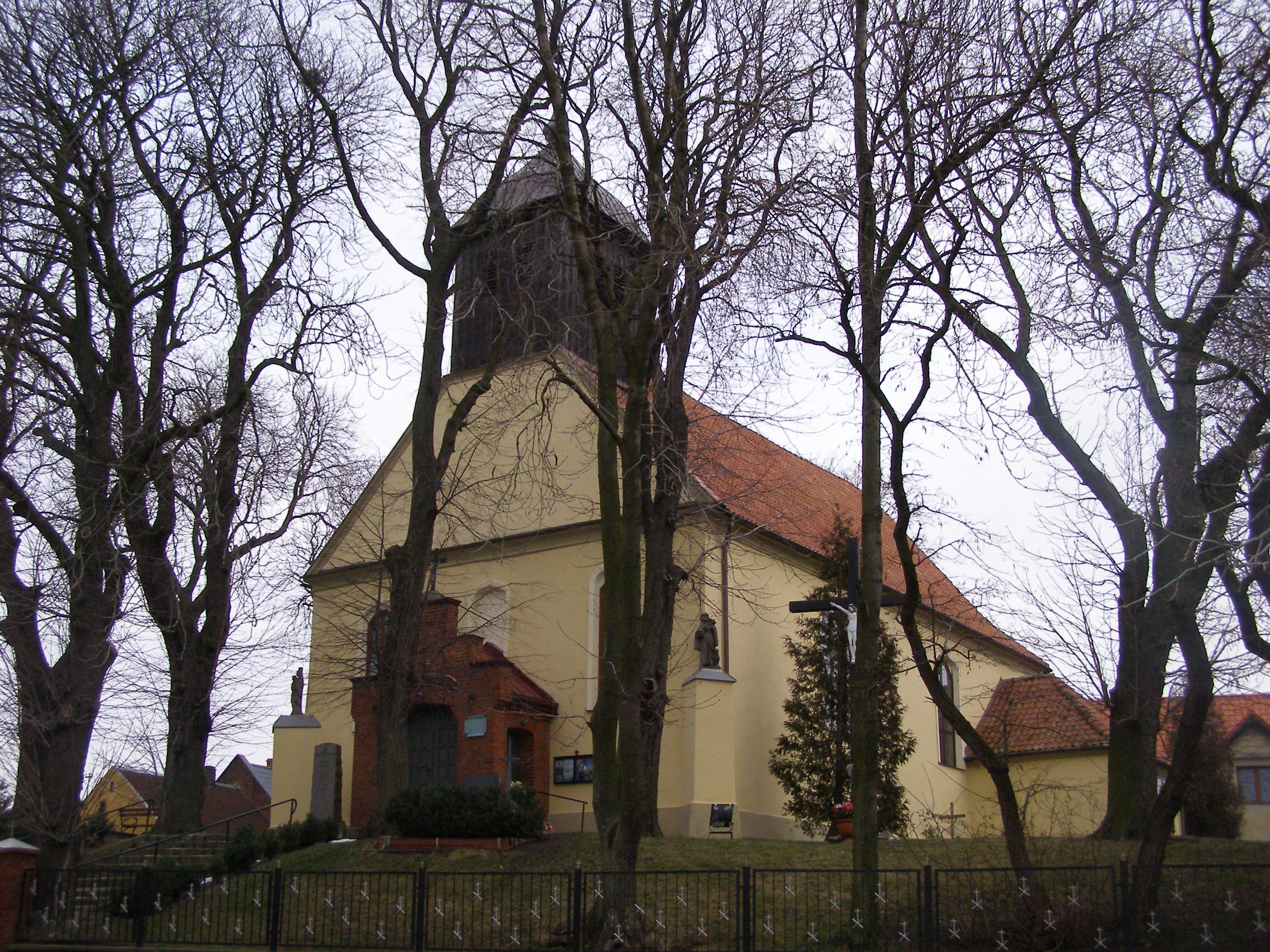 Różyny - St. Lawrence church